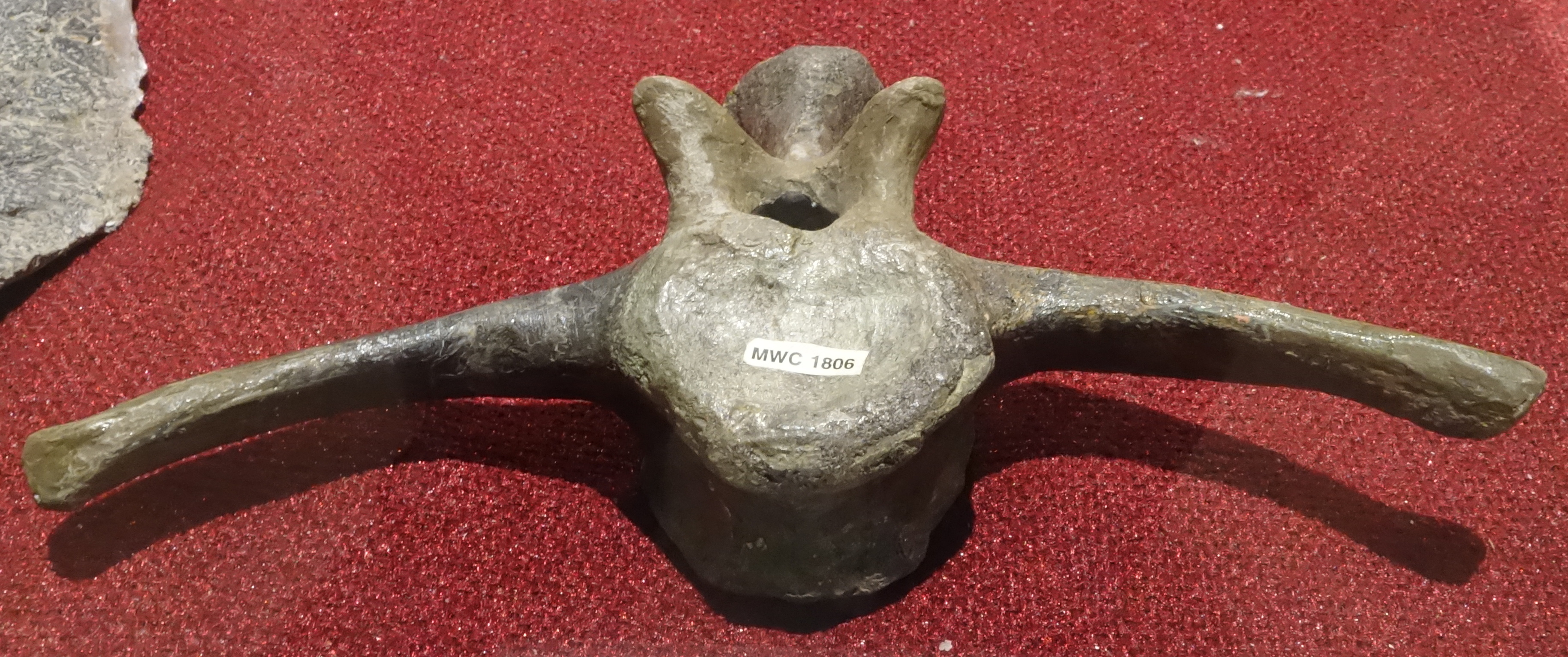 Dorsal vertebra of Mymoorapelta, on display at the Museum of Western Colorado’s Dinosaur Journey Museum in Fruita, Colorado